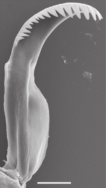 Radula of Marstonia comalensis, USNM 874926. Inner marginal tooth. Scale bar is 10 μm.